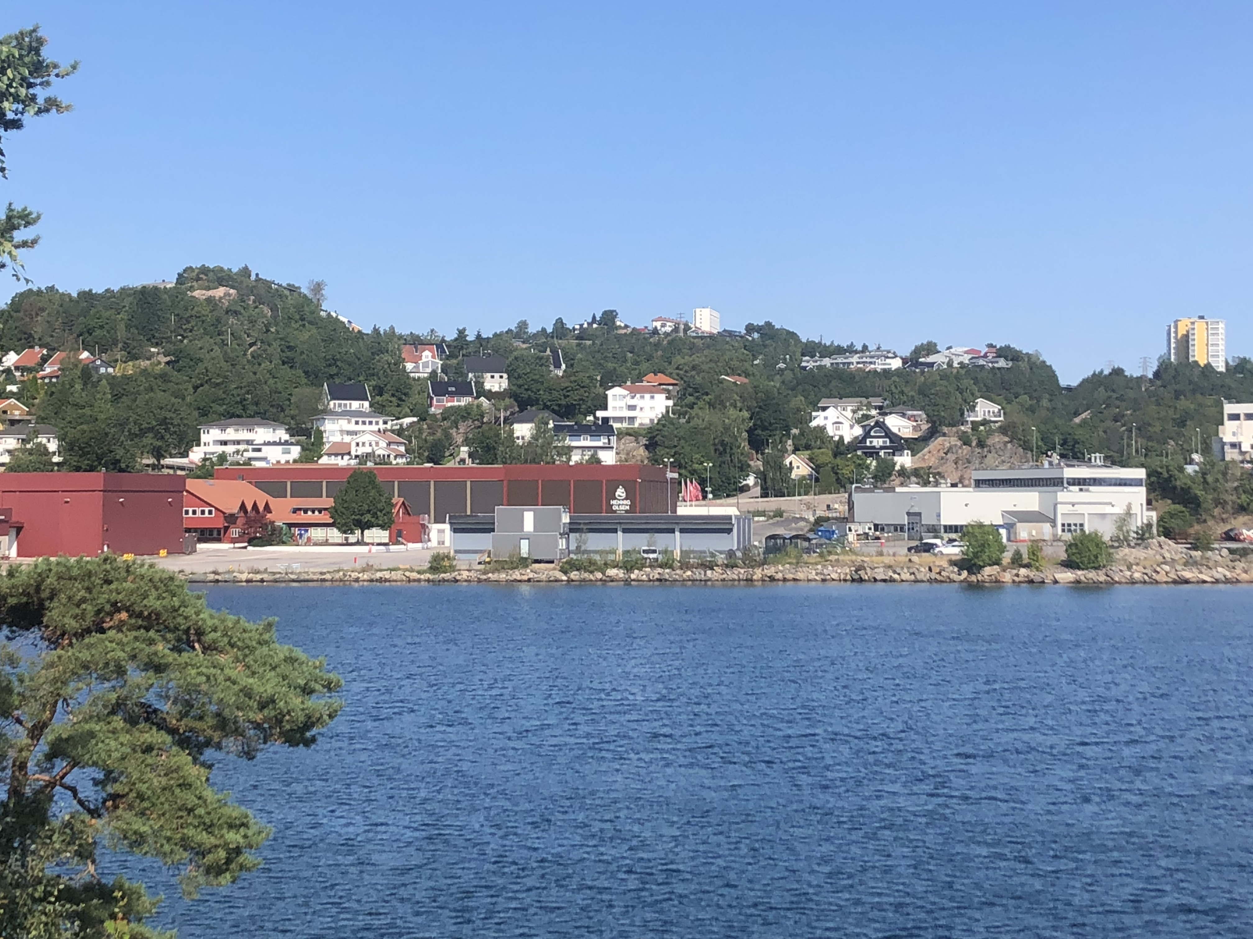 Hennig Olsen, the leading ice cream producer in Norway. Factory and HQ in Kristiansand.